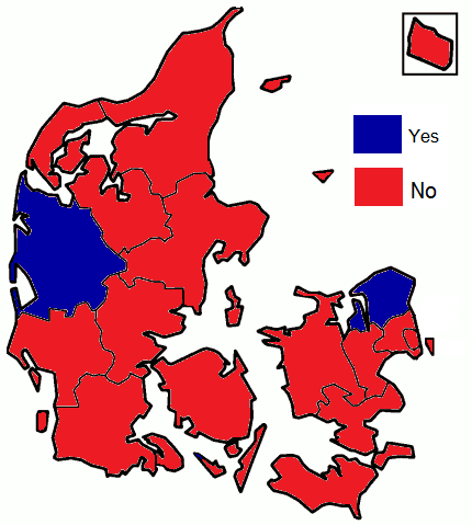 Danish euro referendum results by county, 2000